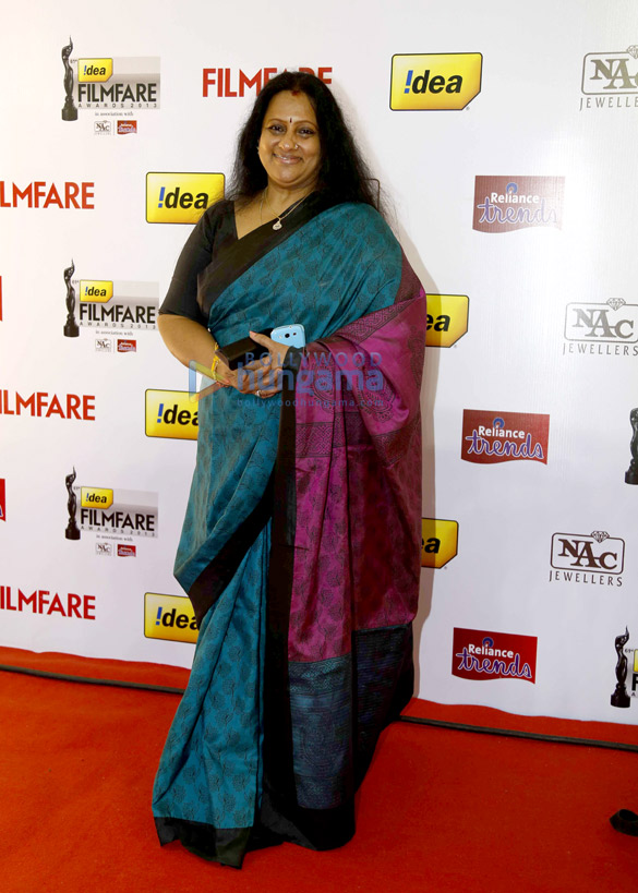 Malayalam actress Seema at the 61st Filmfare Awards South, 2014